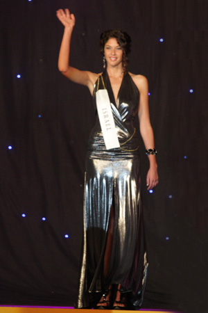 Miss Israel Tamar Ziskind during Miss World 08